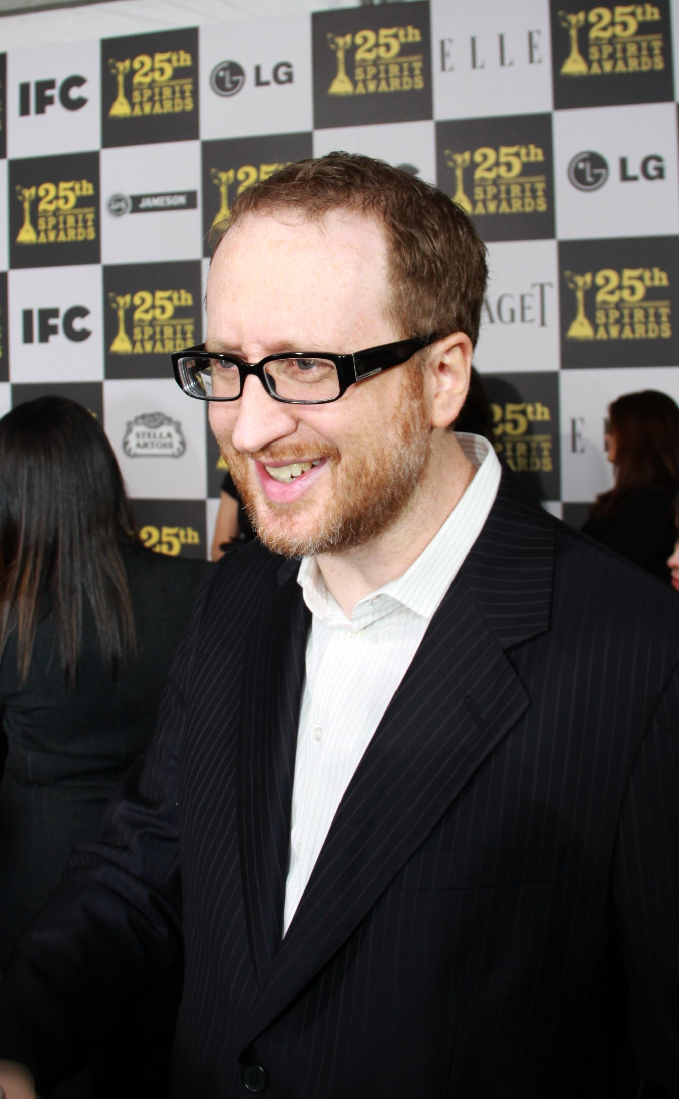 James Gray at the Independent Spirit Awards in Los Angeles on March 5th, 2010.